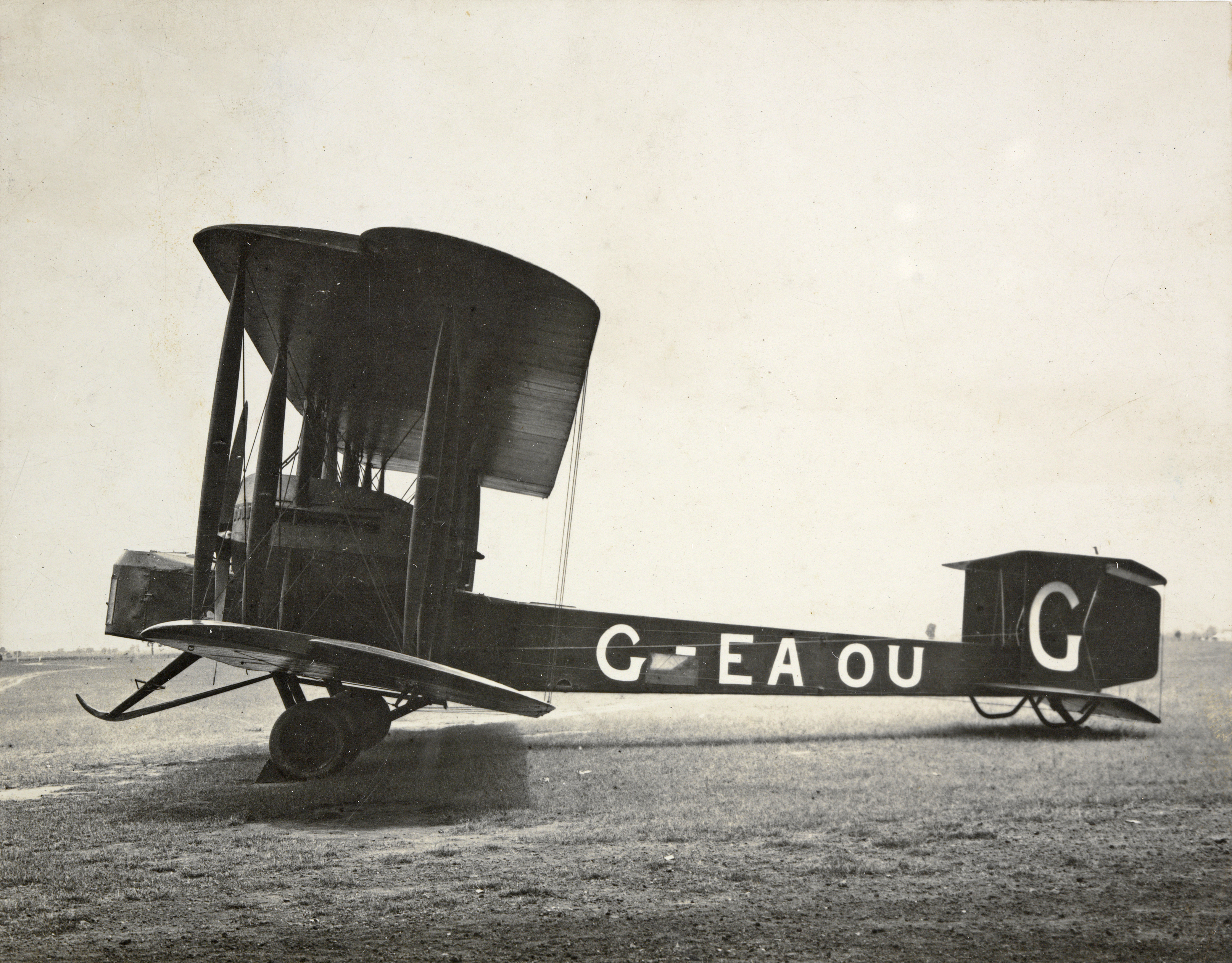 Vickers Vimy, G-EAOU, First flight by Australians from England to Australia, 1919, silver gelatin photo-print, State Library of New South Wales, PXB 1694